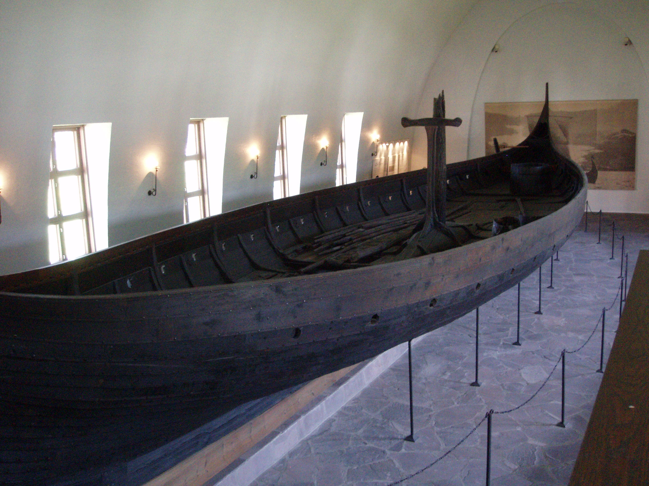 The Gokstad ship.